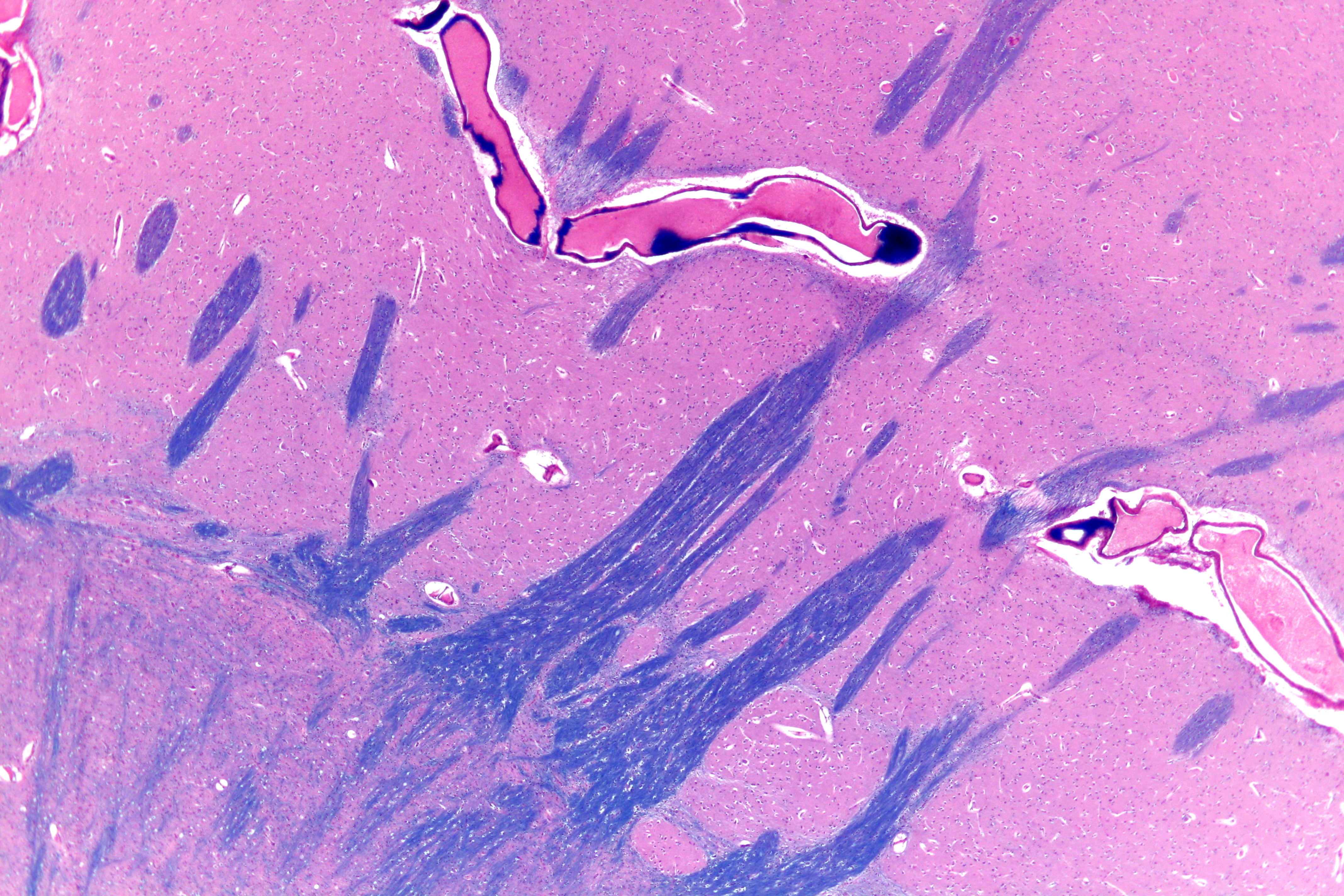 Very low magnification micrograph showing the interface between the globus pallidus (paleostriatum, lower left) and putamen (part of the neostriatum, upper right). H&E-LFB stain. The prominent myelinated fibres that connect the striatum to the globus pallidus are known as striatopallidal fibres, Wilson's pencils, pencil fibres of Wilson, and pencils of Wilson. Related images Intermed. mag.